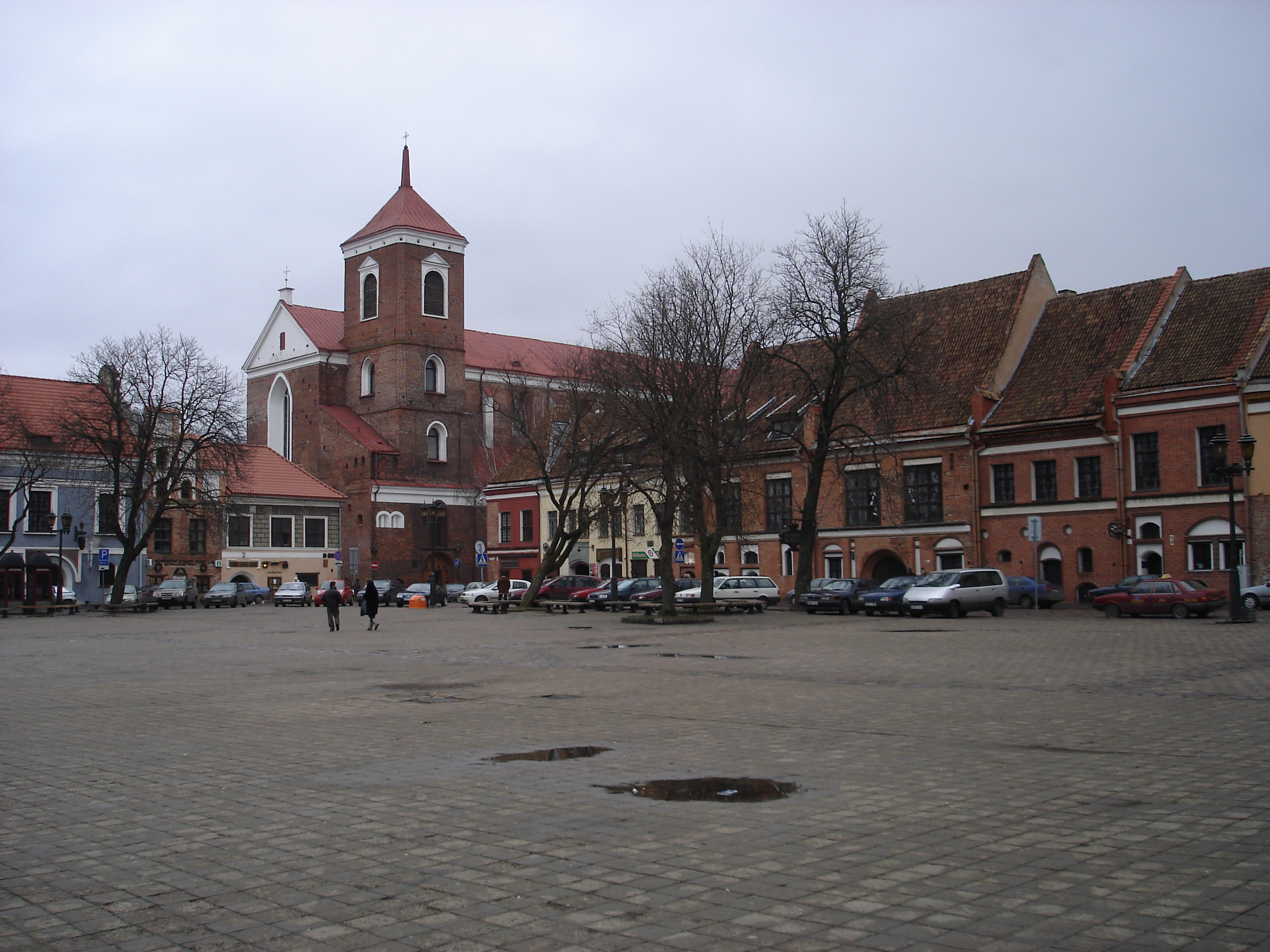 City Hall Square, Kaunas, Lithuania.